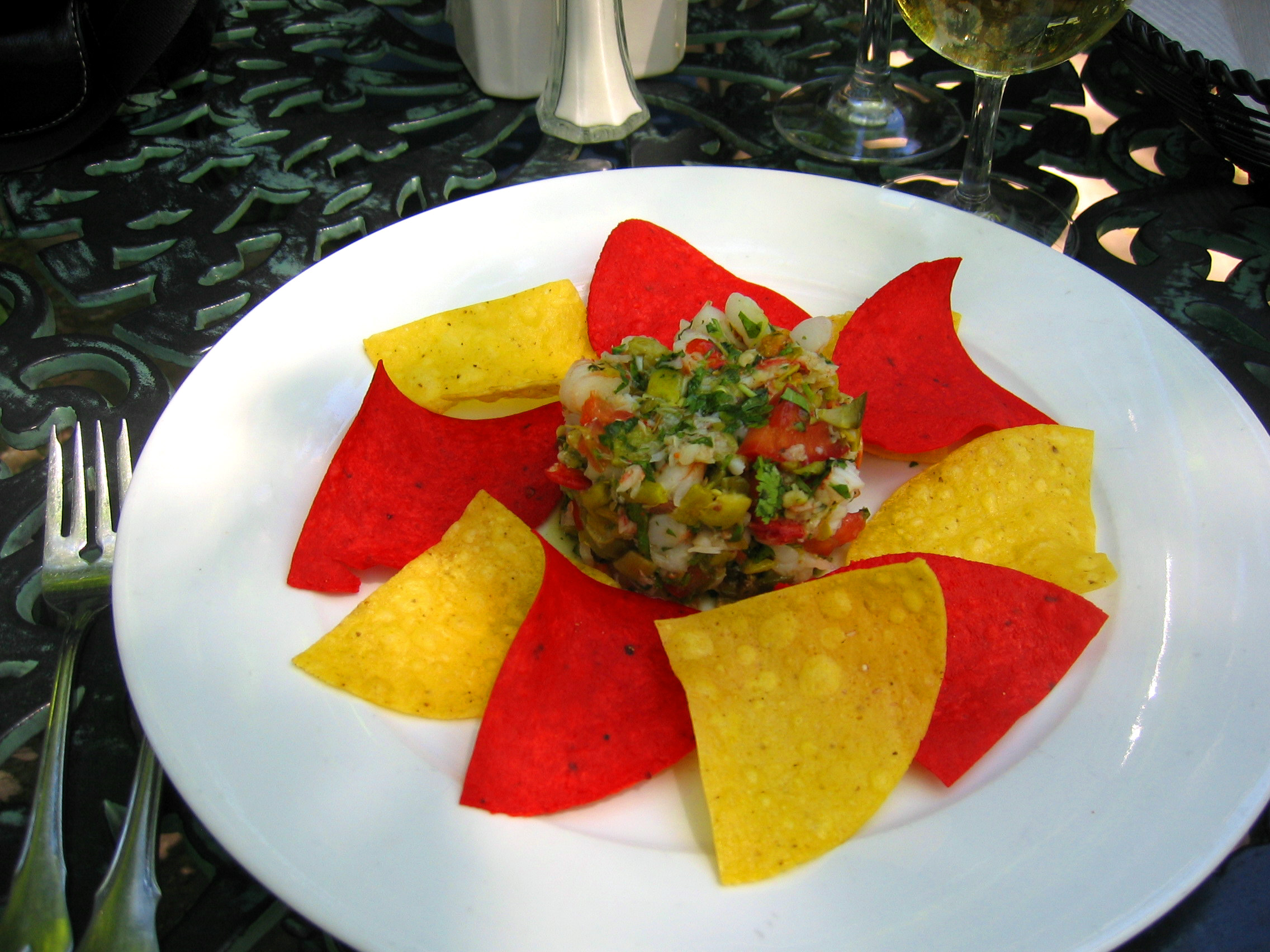 Lobster and shrimp ceviche